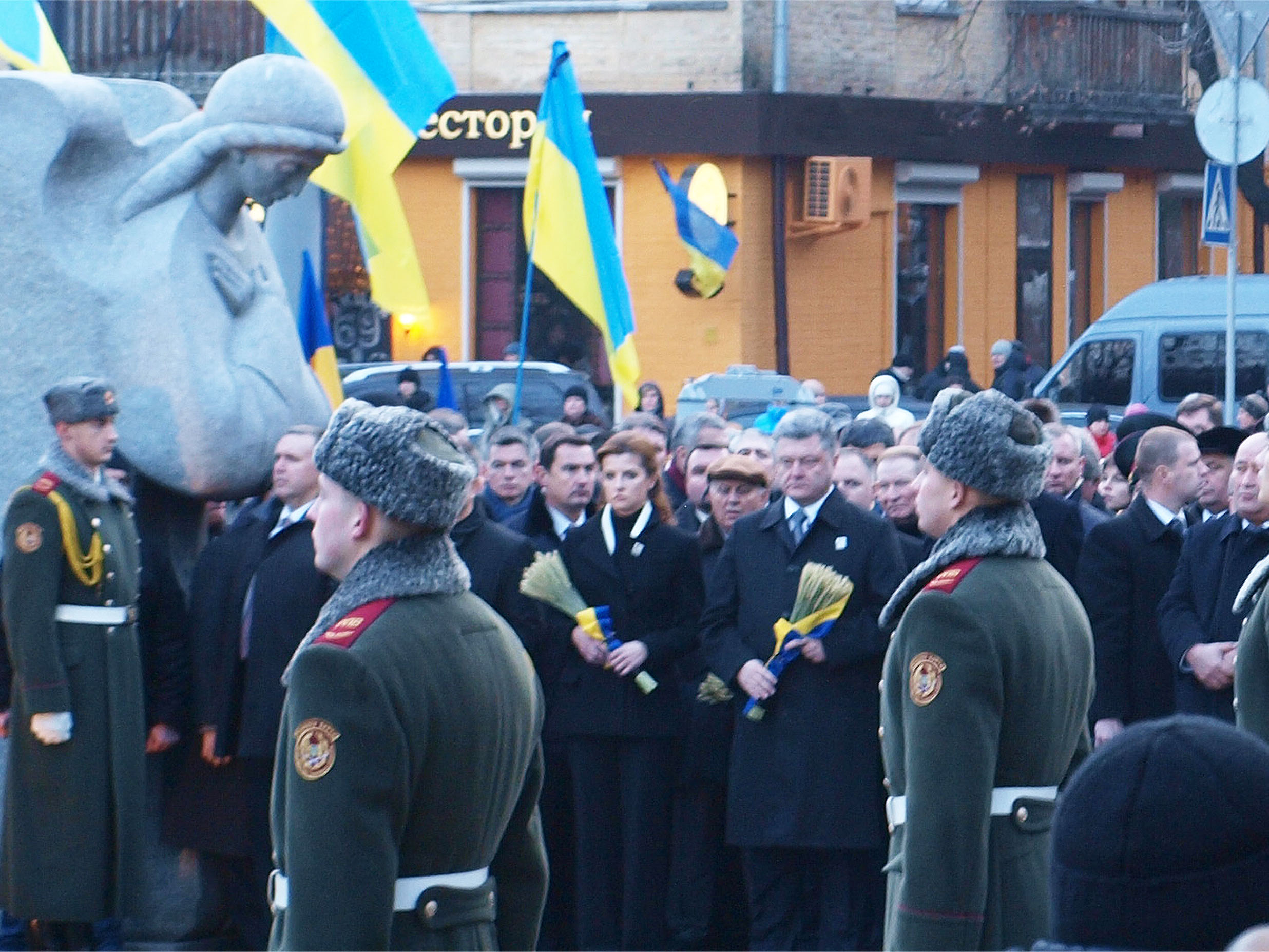 The Ukrainian president Petro Poroshenko and ex-presidents Leonid Kravchuk, Leonid Kuchma, Viktor Yushchenko honoured the memory of victims of the Holodomor in Ukraine